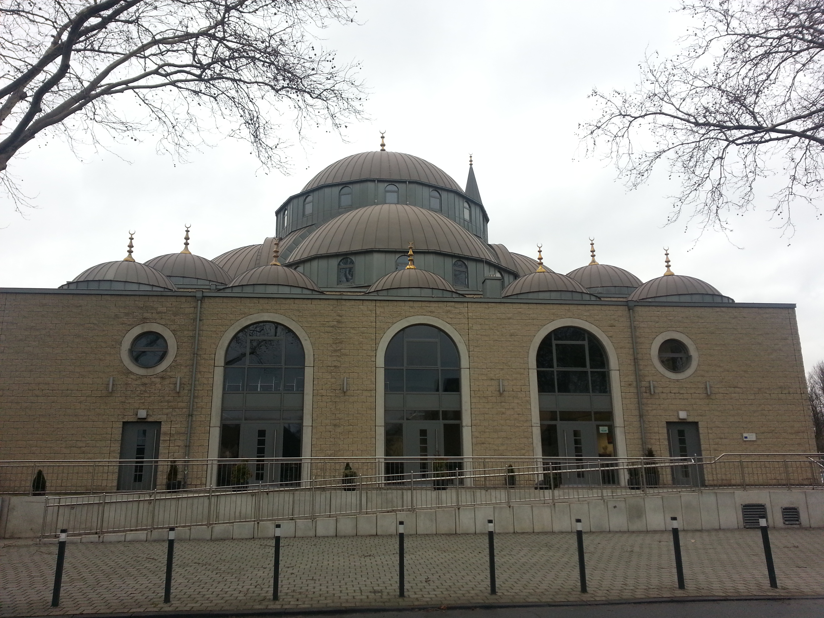 DITIB-Merkez-Moschee